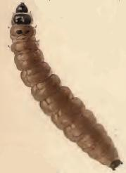 Stainton’s Natural History of the Tineina (1855–1873): Coleophora auricella